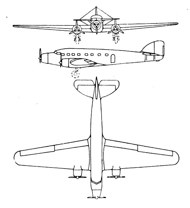 SM-75 3-view drawing from L'Aerophile June 1938